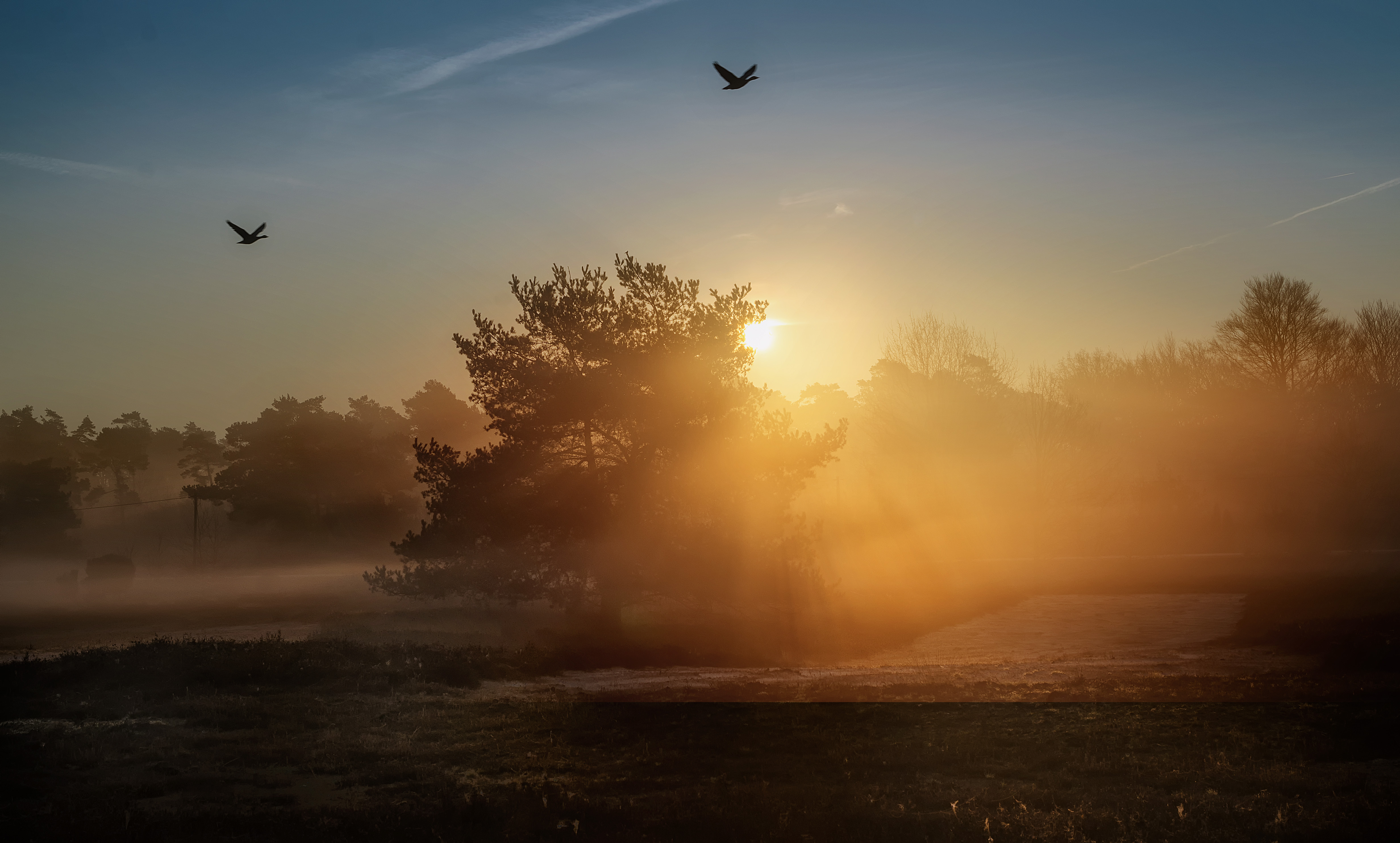 sunrise early in the morning in the natural reserve Westtruper Heide in Germany near to the border of the netherland